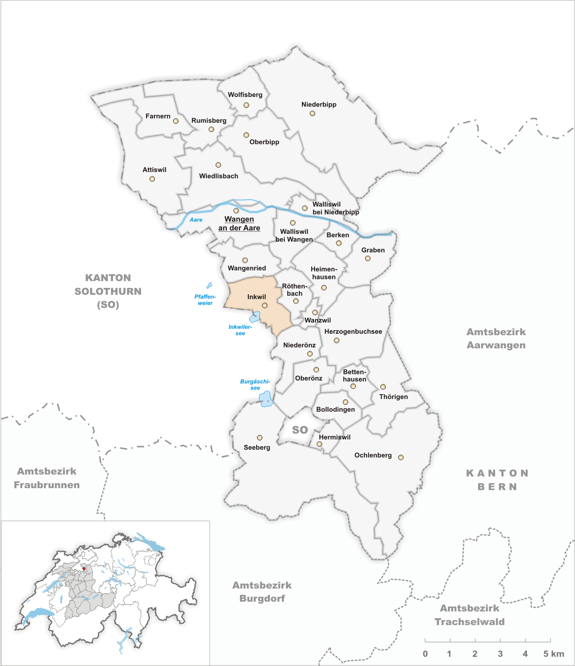 Municipality Inkwil